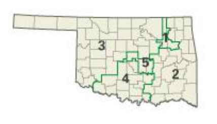 Oklahoma election districts (House of Representatives election 2006)